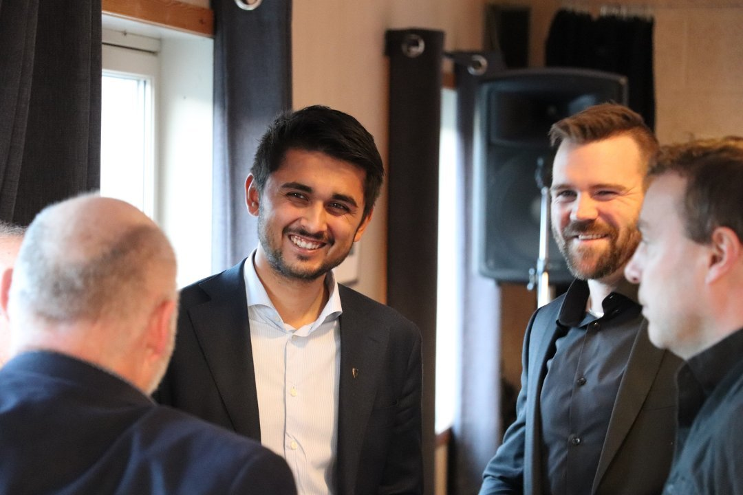 Jonas Andersen Sayed, mayor in Sokndal, Norway.